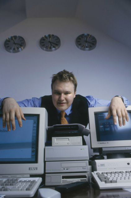 Kim Schmitz also dotcom or Kim Kimble, Megaupload. Taken in September 1996 in Kim's loft in Munich-Giesing.